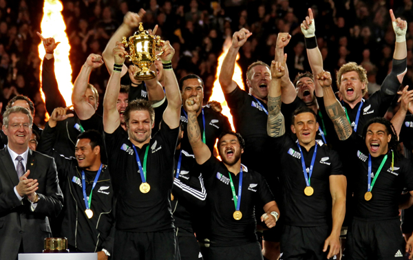 All Blacks captain Richie McCaw lifts the Webb Ellis Cup at the 2011 Rugby World Cup